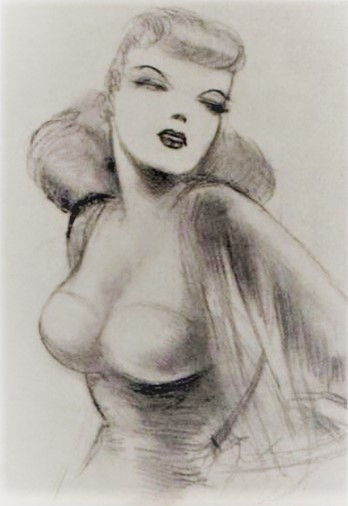 An early pencil portrait of Lois Lane, based on Joanne Siegel, by Joe Shuster.